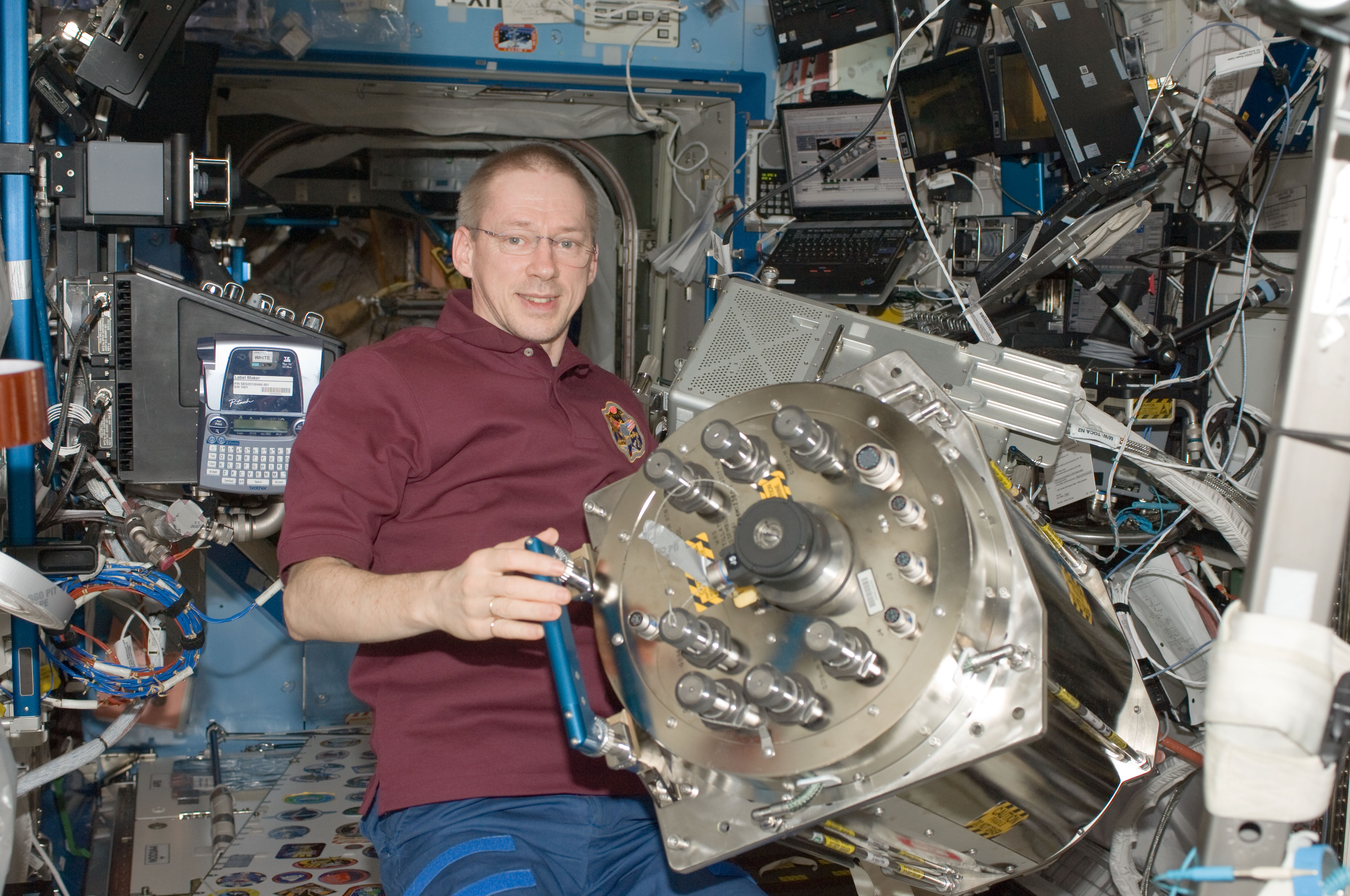 European Space Agency astronaut Frank De Winne, Expedition 21 commander, holds the failed Urine Processor Assembly / Distillation Assembly (UPA DA) in the Destiny laboratory of the International Space Station while space shuttle Atlantis remains docked with the station. De Winne and NASA astronaut Leland Melvin (out of frame), STS-129 mission specialist, removed and packed the UPA DA, then transferred it from the Water Recovery System 2 (WRS-2) rack to Atlantis for stowage on the middeck.